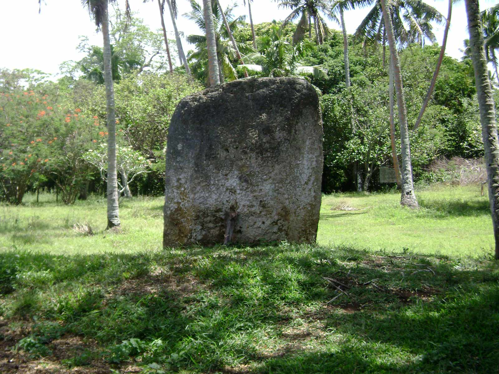 Maka faakinanga, the throne of a prehistoric king; Tonga